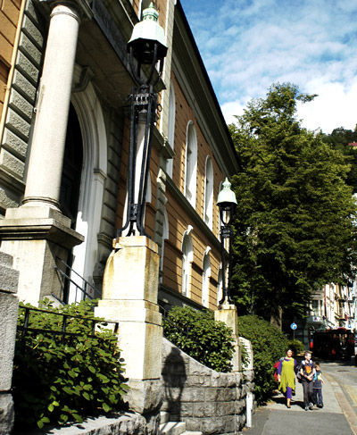 Bergen National Academy of the Arts